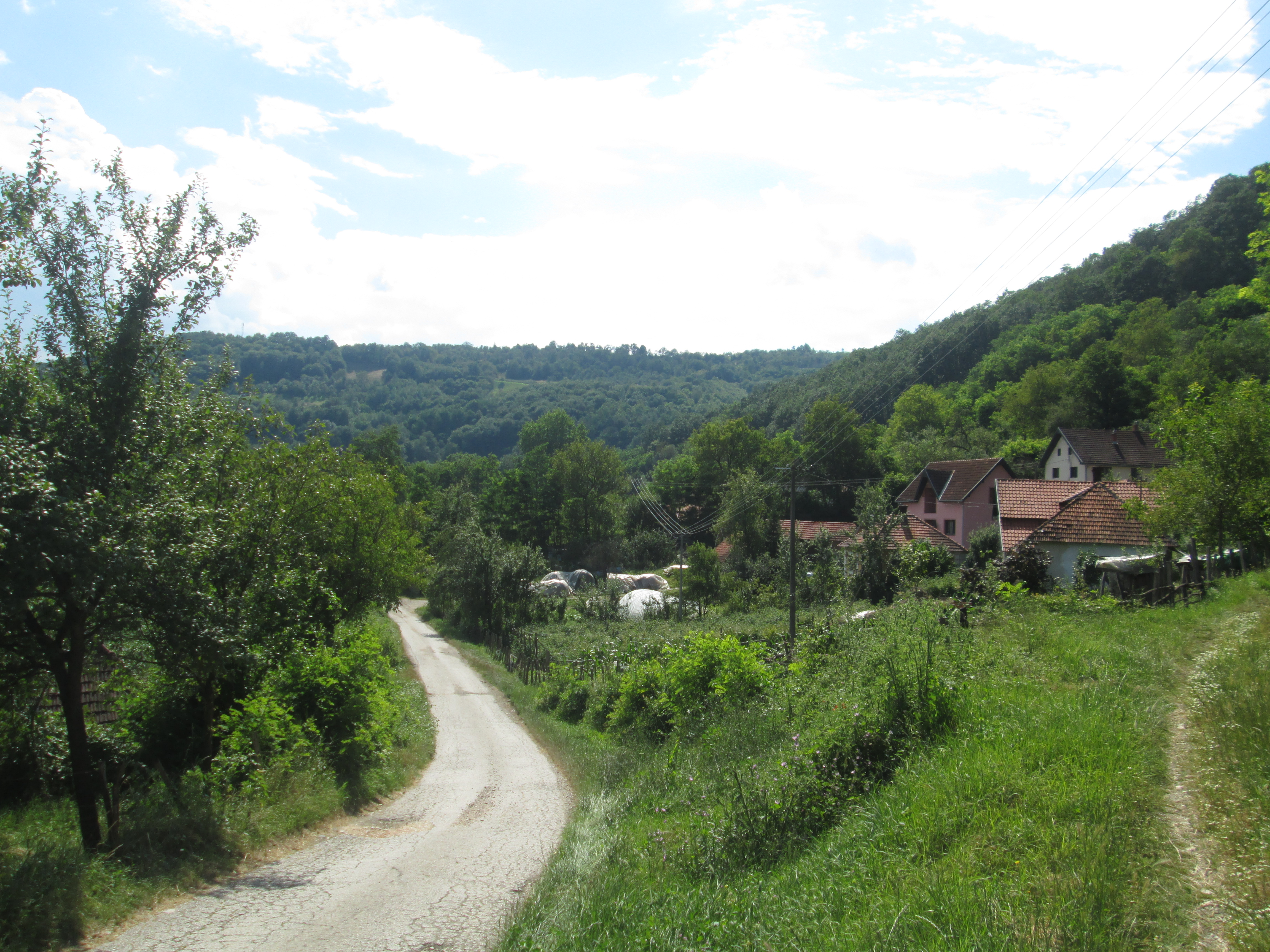 View over the village, OtanjСрпски (ћирилица): Поглед на село, Отањ